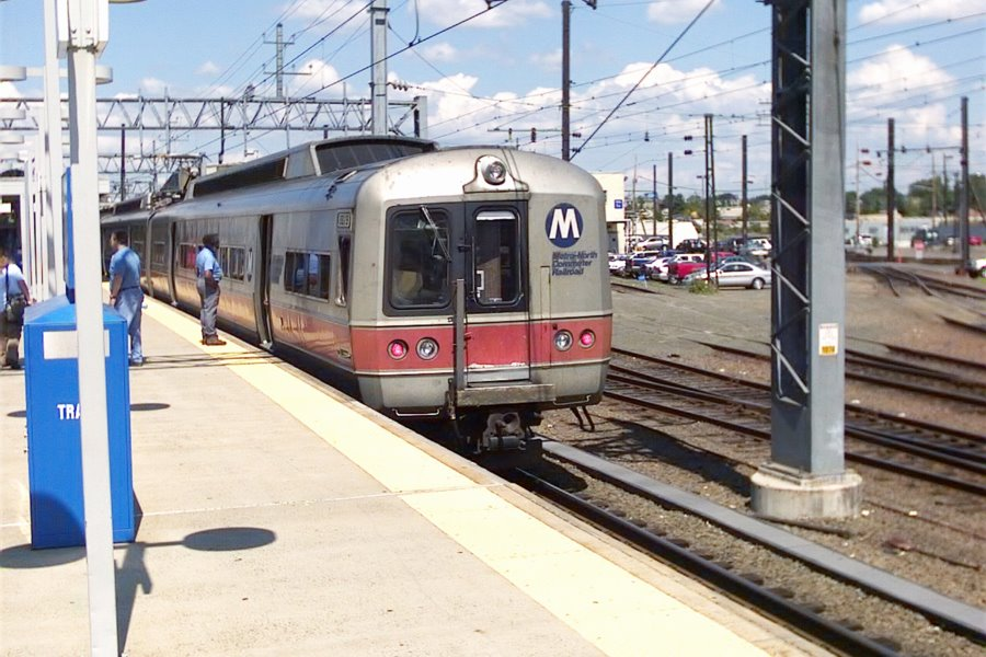 A New York bound Budd/GE M2 EMU railcar at New Haven Union Station